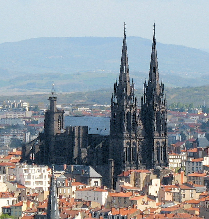 Clermont-Ferrand cathedral seen from Montjuzet Park. Camera : Canon Powershot A610. Original picture cropped and edited